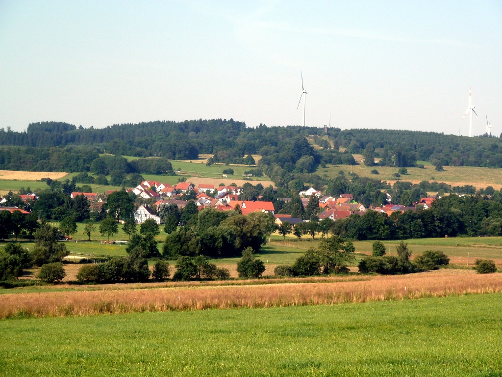 General view of Bermuthshain, seen from the North with a look towards the Hoellerich hill. In the background there are the wind turbines of the Windenergiepark Vogelsberg (wind farm).